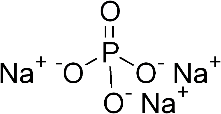 chemical structure of trisodium phosphate